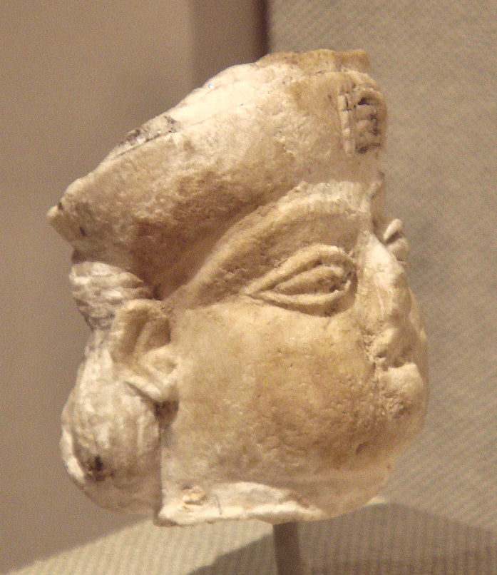 BMAC Head 3rd-Early 2nd Millenium BCE